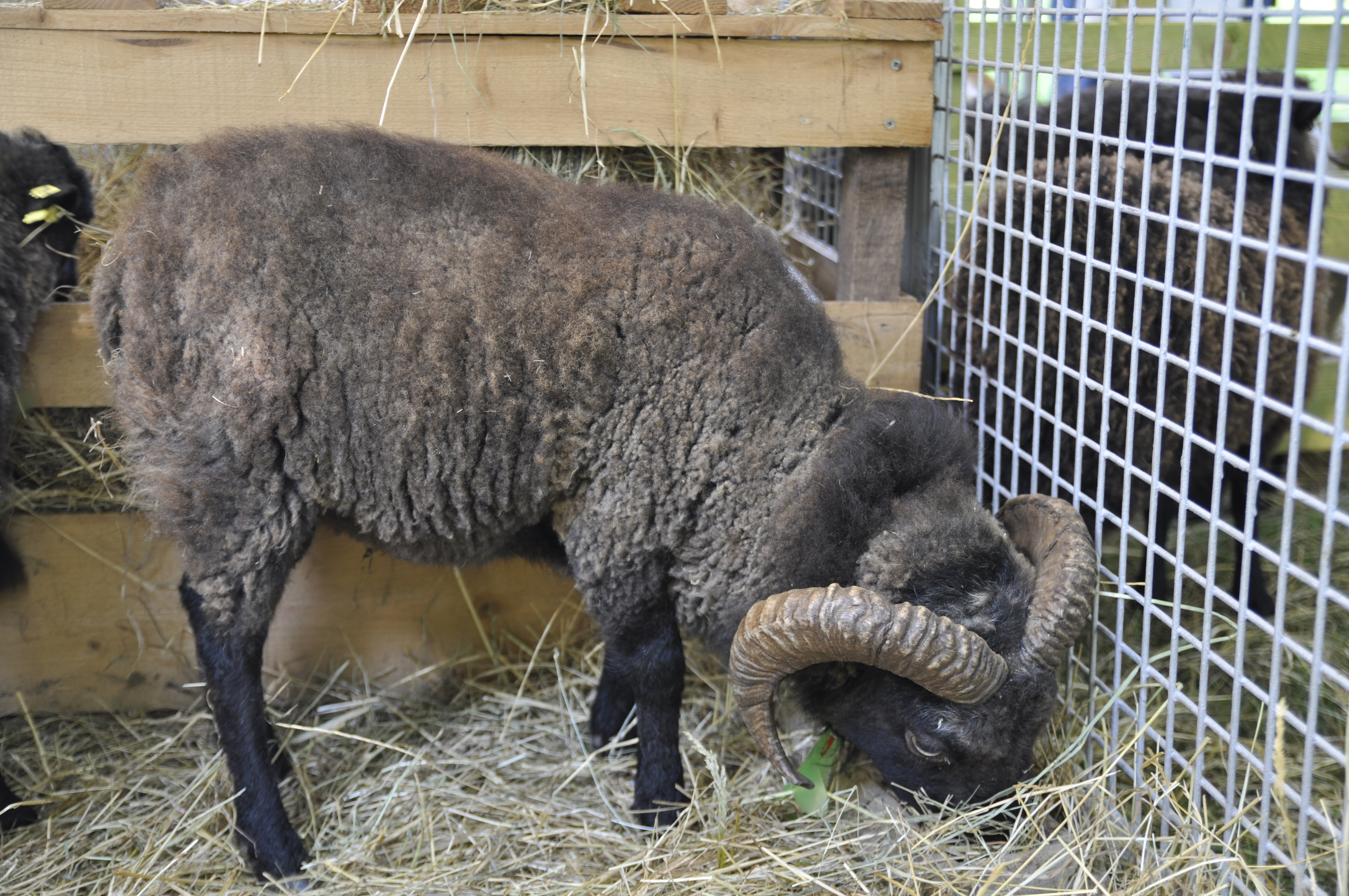 Ouessant sheep ram grey dilute